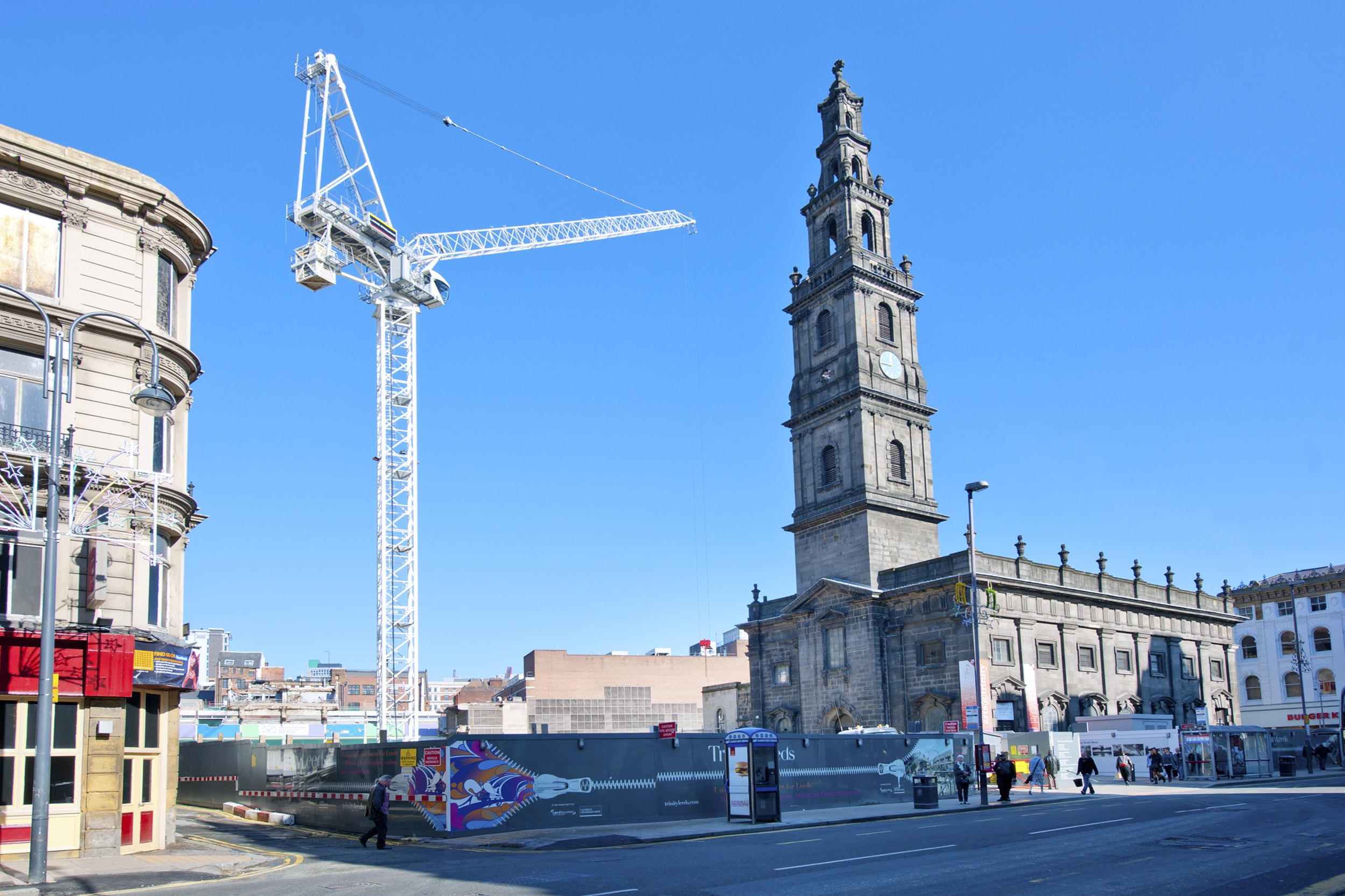 Trinity Leeds tower crane - the view from Boar Lane. Taken by Flickr user:EG Focus on Monday the 30th of October 2010.